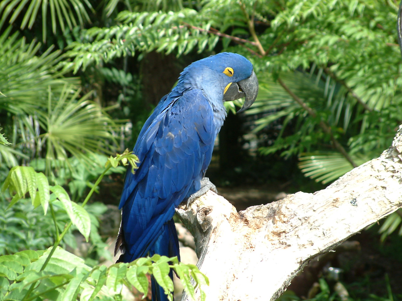 Anodorhynchus hyacinthinus at Parc des Oiseaux, Villard-les-Dombes, Ain, France